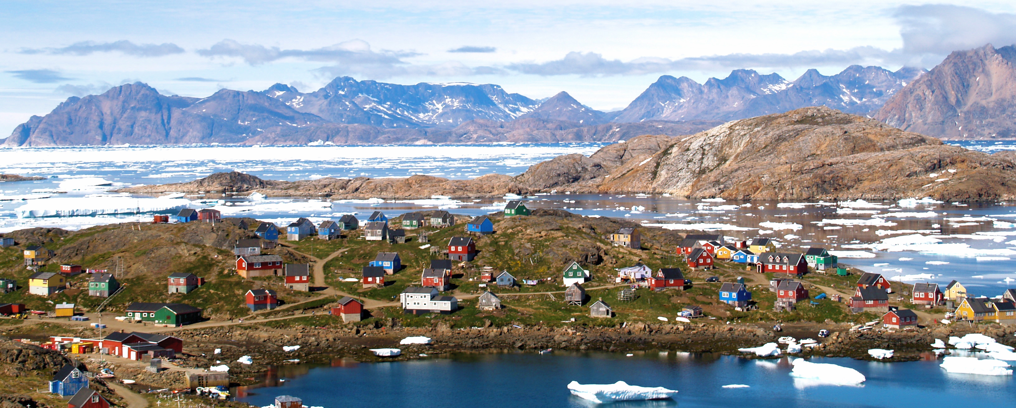 The village of Kulusuk viewed from a nearby hill. Greenland. July 2006. It is a settlement in the Municipality of Ammasalik, Greenland. Population (January 2005) is 310. Approximate location is [show location on an interactive map] 65°34′N, 37°11′W, on Kulusuk Island which also houses Kulusuk Airport, East Greenland's only international airport. In Greenlandic Kulusuk means 'the chest of a Black Guillemot'.